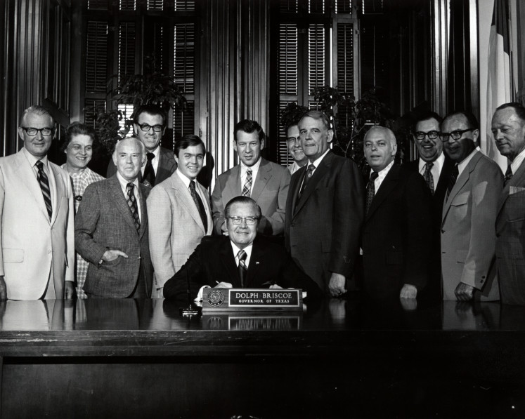 Dolph Briscoe Governor, Texas, 1973-1979. Dolph Briscoe sitting at a desk, behind his nameplate, with a group of men and women standing behind him, including President Philip Hoffman, VP Allen Commander, Regent Aaron Farfel, Lt. Gov. William P. Hobby. They are possibly at the signing of a law making the University of Houston a state university.